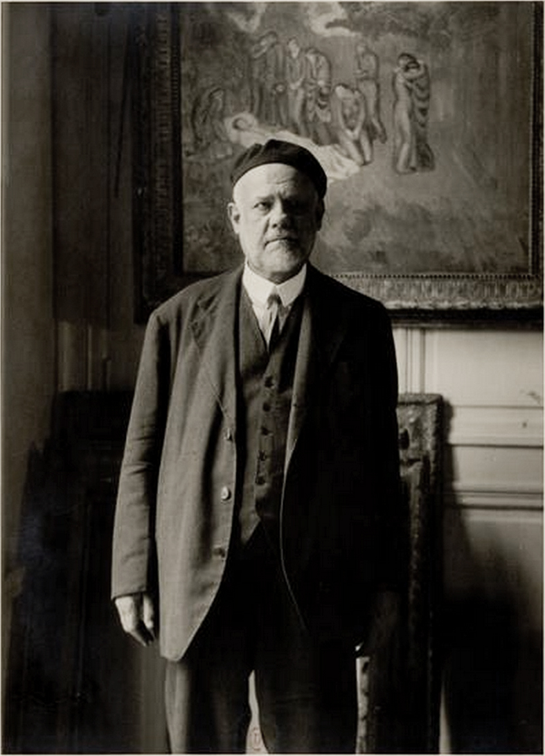 Photograph of Ambroise Vollard (1866-1939), standing in front of a painting by Pablo Picasso, Evocación. El entierro de Casagemas (1901), now in the Musée d’Art Moderne de la Ville de Paris